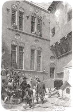 Courtyard of the "de Croy-Chasnel" and "Pierre Bucher" houses, 6 rue Brocherie, Grenoble, France